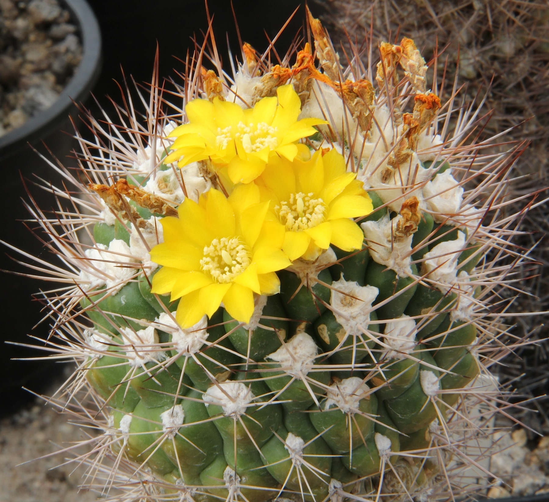 Weingartia westii